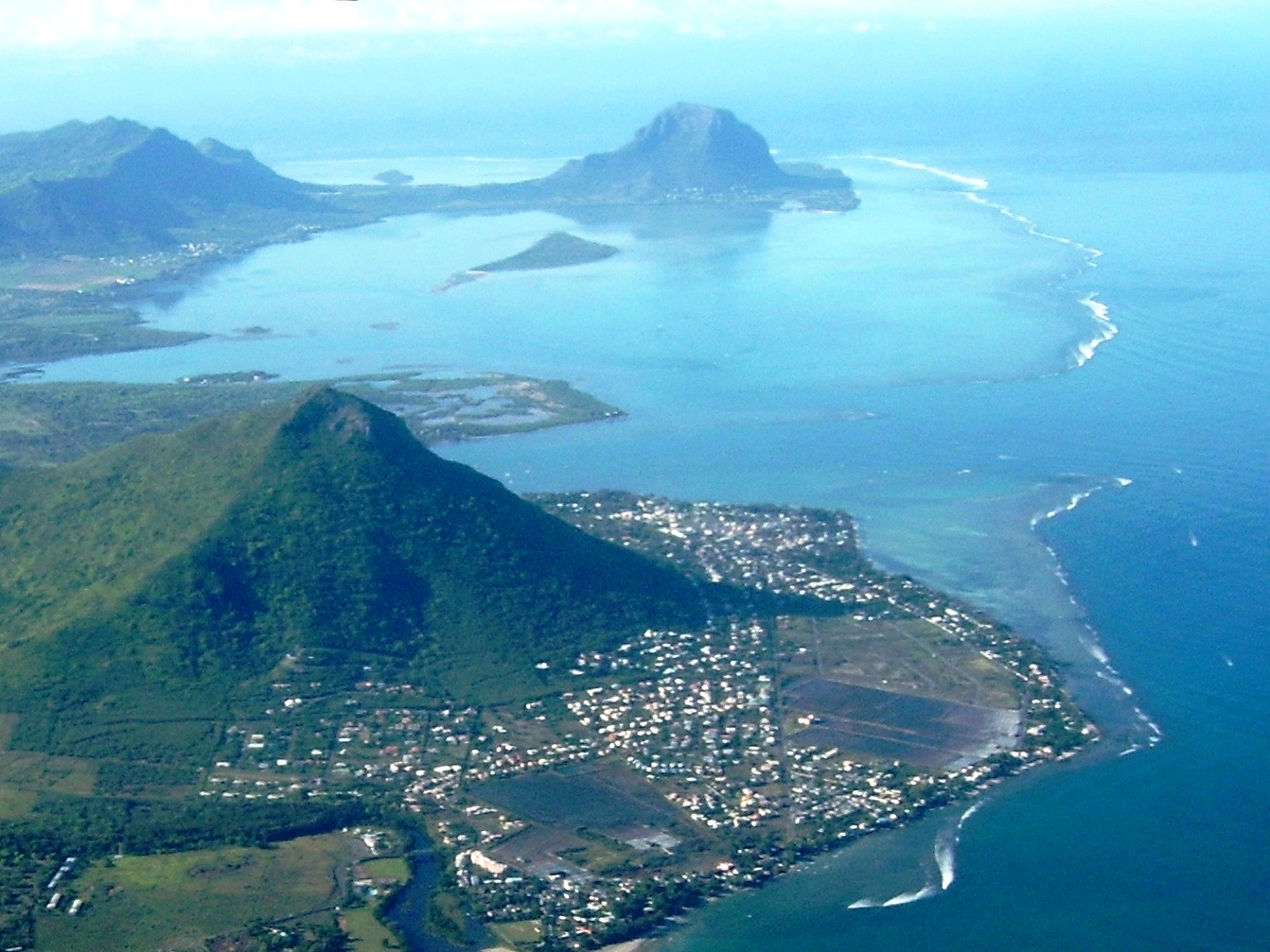 Arriving in Maurice: a view from the plane